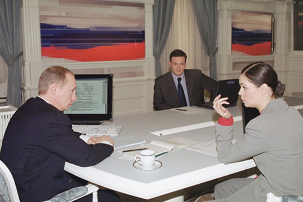 THE KREMLIN, MOSCOW. Vladimir Putin with Yekaterina Andreyeva and Sergei Brilev, TV presenters of the ORT and RTR TV channels, during a live televised question-and-answer session.